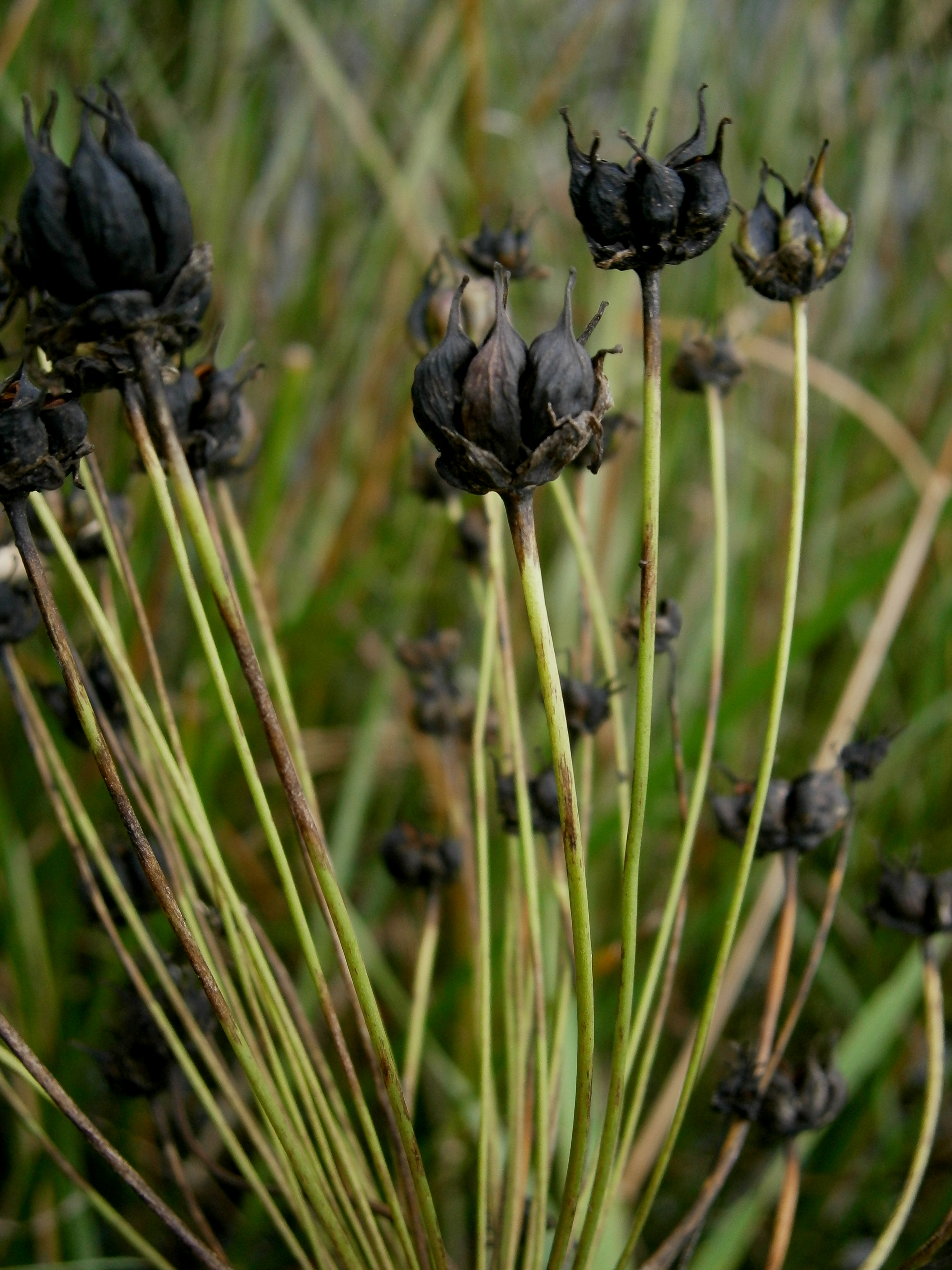 Butomus umbellatus close-up fruits